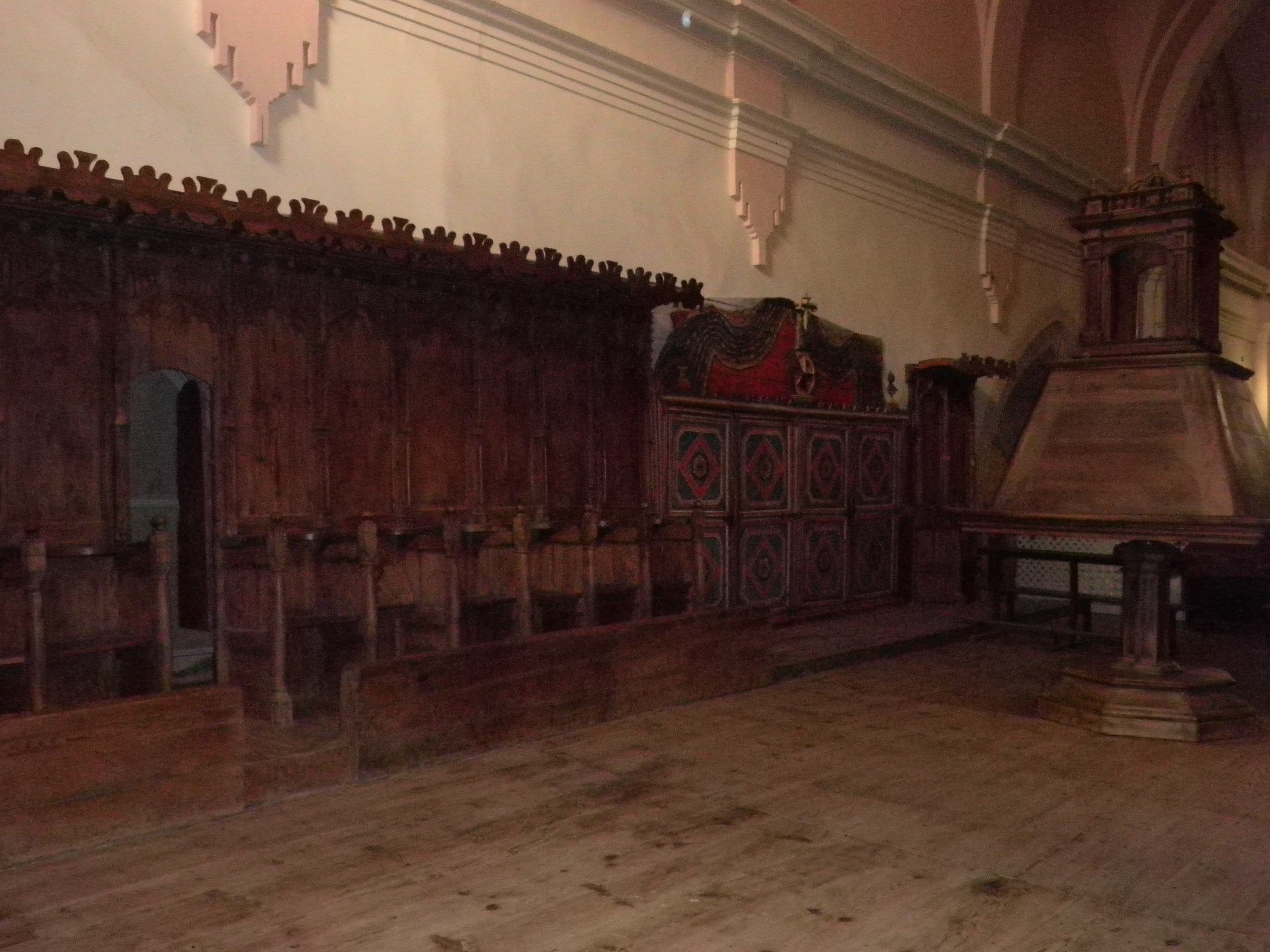 Choir of church of Santa María la Real de Nieva, Segovia province, Spain.